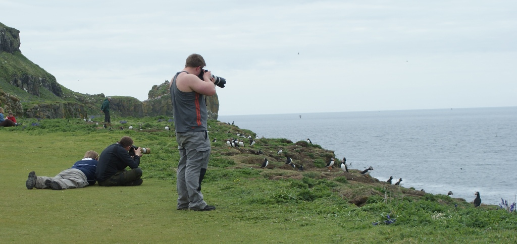 People watching Atlantic Puffins in Scotland.